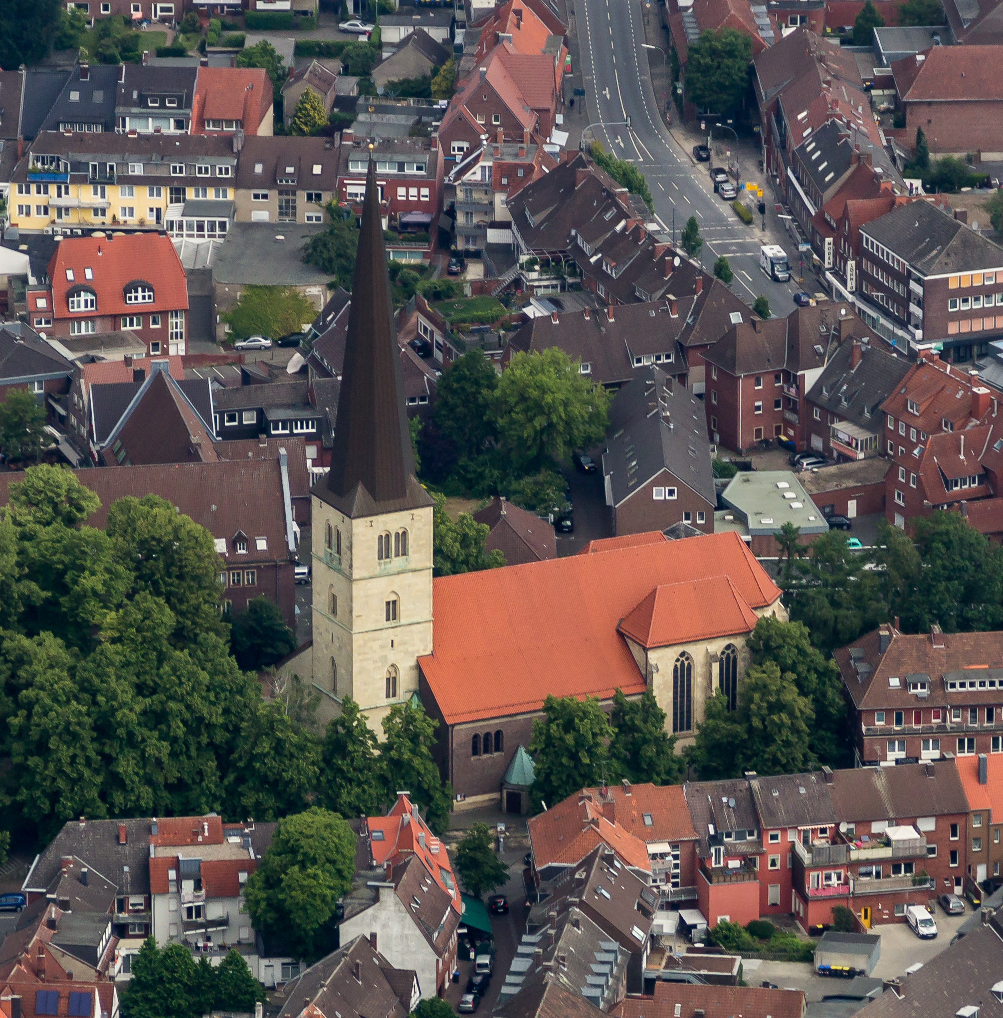 Saint Viktor of Xanten Church, Dülmen, North Rhine-Westphalia, Germany This image shows a heritage building in Germany, located in the North Rhine-Westphalian city Dülmen (no. 15).